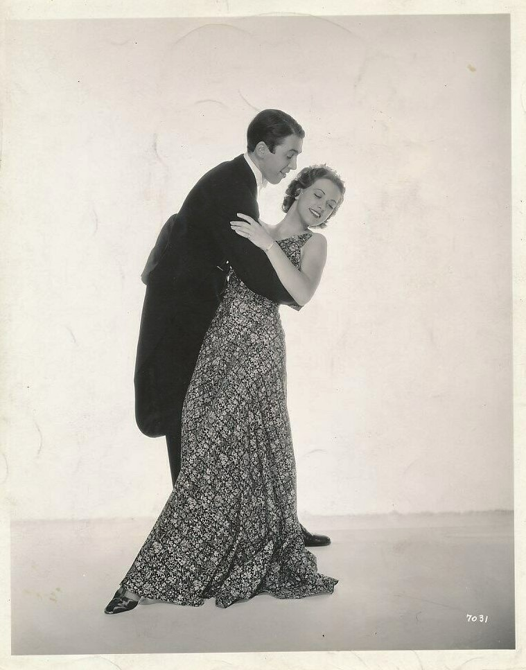 James Stewart and Eleanor Powell in Born to Dance, 1936. Ted Allan stamp on rear of photo